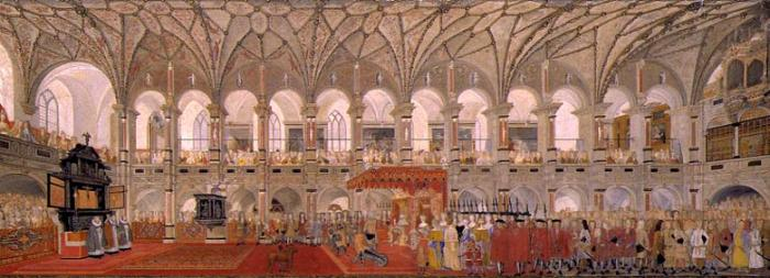 A gouache depicting the anointing of Frederick IV of Denmark in Frederiksborg Palace